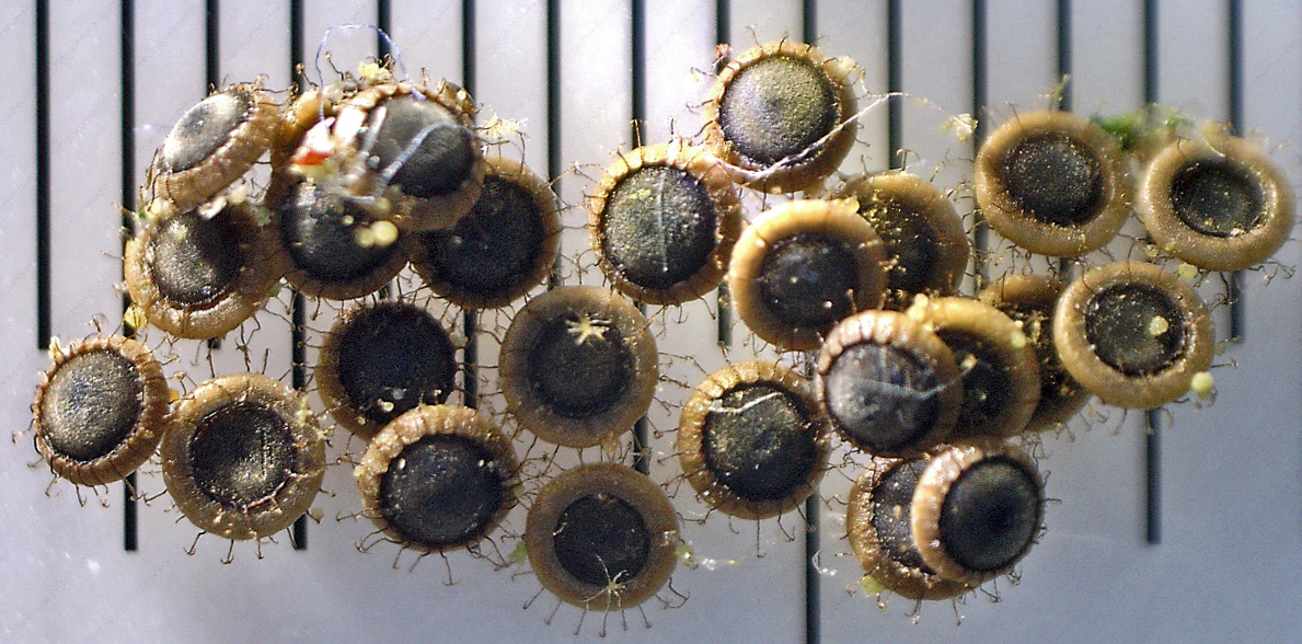 Statoblasts (propagules) of freshwater bryozoan Cristatella mucedo here agglomerated to each other and forming a small floating raft drifting with the wind or likely being swallowed by a duck, a moorhen or other semi-aquatic animals.